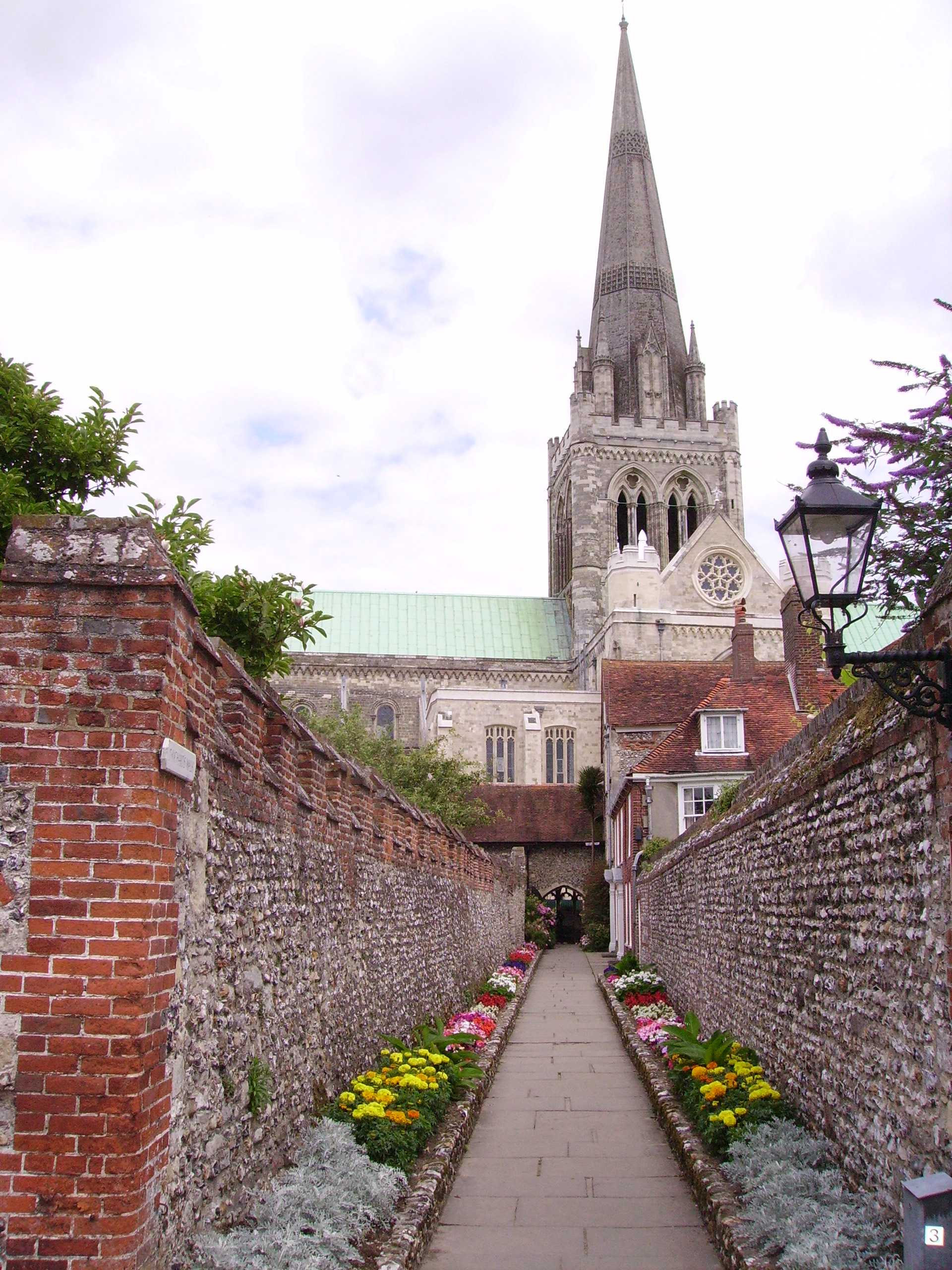 Passage to Chichester Cathedral, view from Canon Lane.